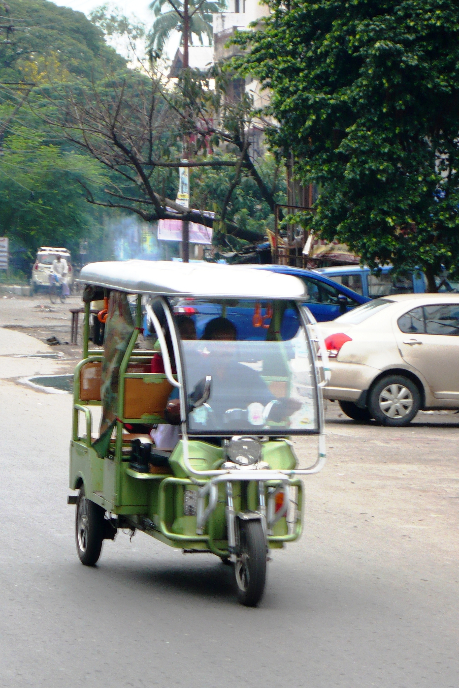 vehicle